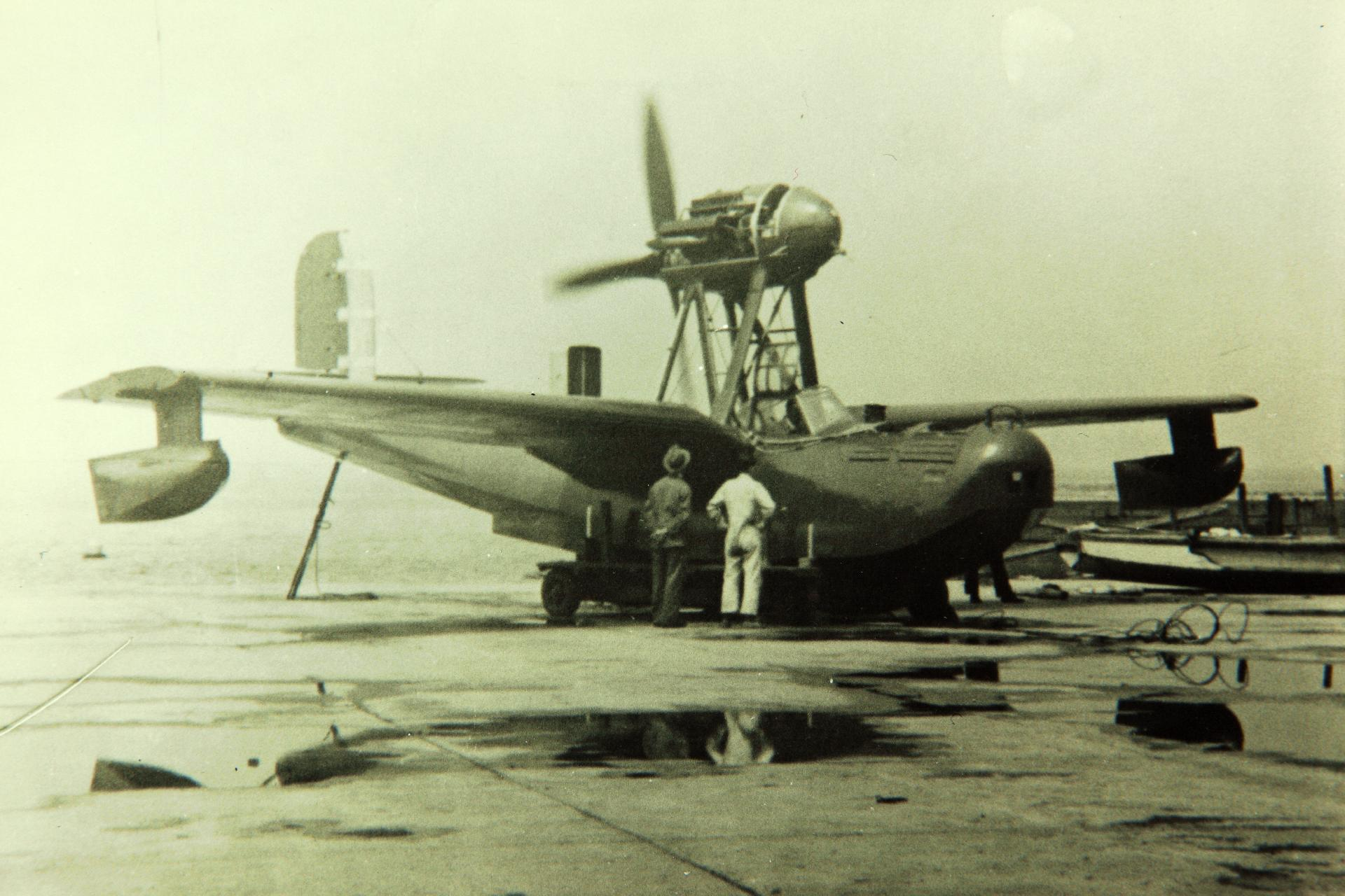 Kawanishi E11K-1 "Laura" flying boat.